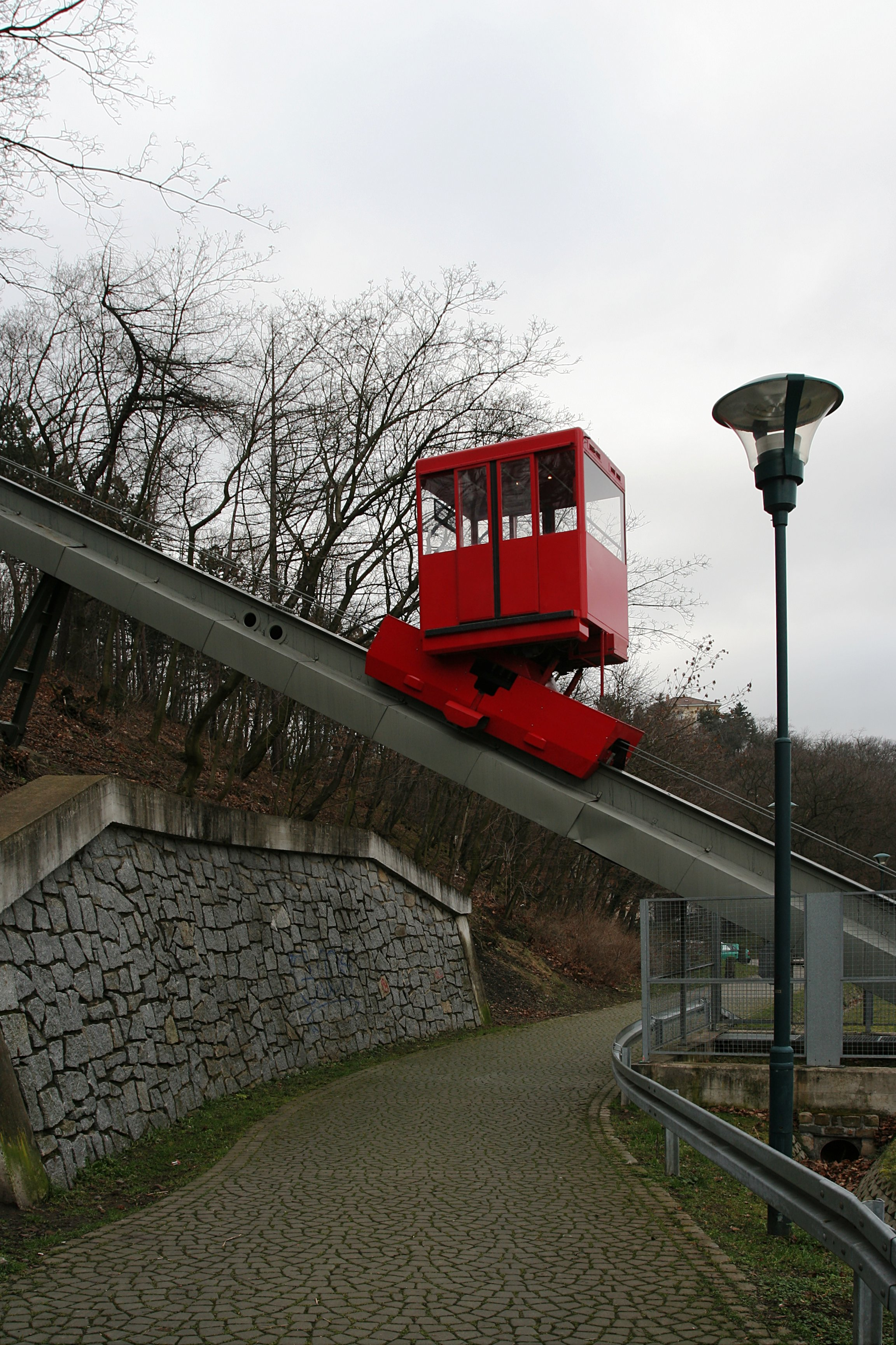 Cable car lift between two buildings of Mövenpick hotel in Prague